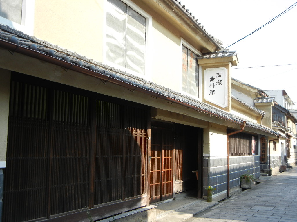 Hirose_Shiryokan_Hita_Oita. 大分県日田市にある「廣瀬資料館」, Hita.